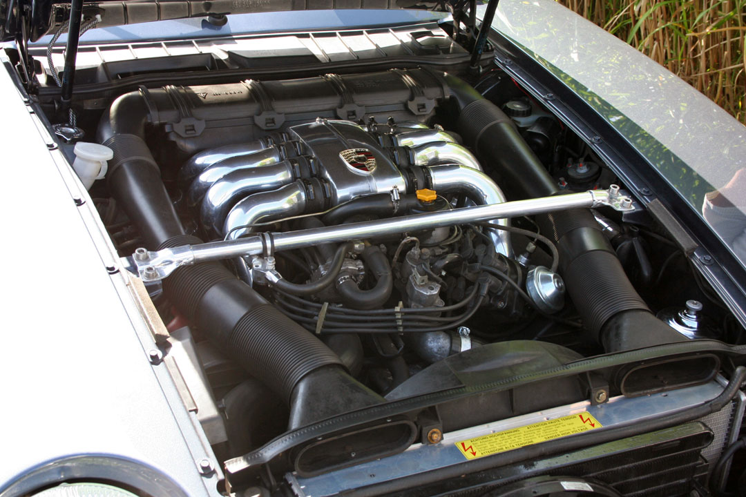 Motor of a Porsche 928 S at Classic Days Schloss Dyck 2012.